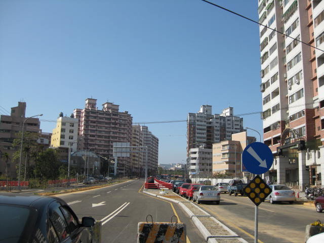 The picture shows the Special No.3 Road from Zhongyong Road in Taichung City,it is part of "the Taichung life circle road system construction plan".